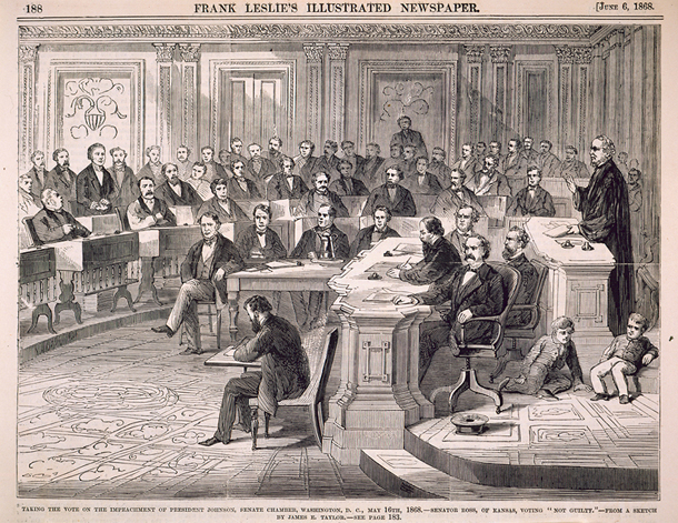 Taking the Vote on the Impeachment of President Johnson, Senate Chamber, Washington, D.C., May 16th, 1868. – Senator Ross, of Kansas, Voting "Not Guilty." – Wood engraving, black and white, after James E. Taylor. – To the right on the dais: two Senate Pages.